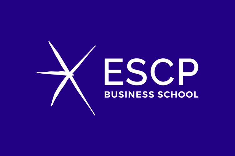 Given the ESCP rebrand in 2019, the school released a new logo with a new slogan.